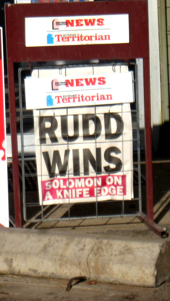 The Australian Labor Party led by Kevin Rudd win the 2007 federal election. User:FlickreviewR/reviewed-pass|lulugal0870| 19 March 2008 (UTC)|cc-by-sa-2.0